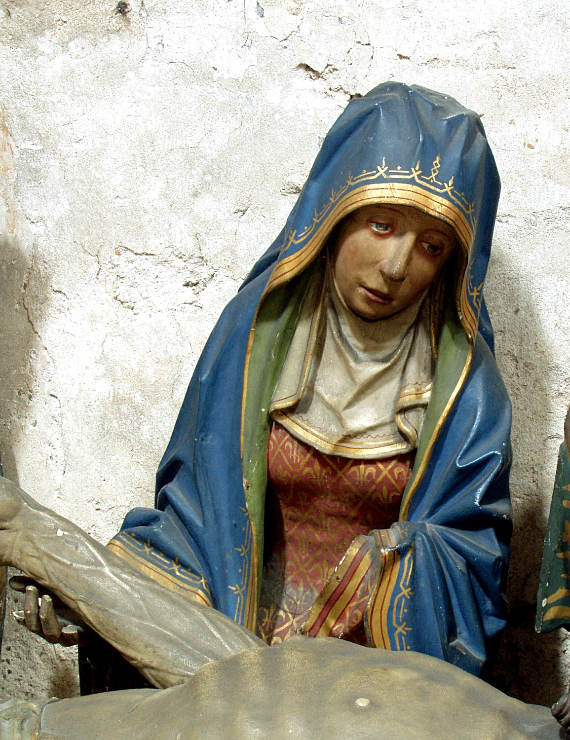 Virgin Mary, in the church "Gross St. Martin", Cologne, Germany